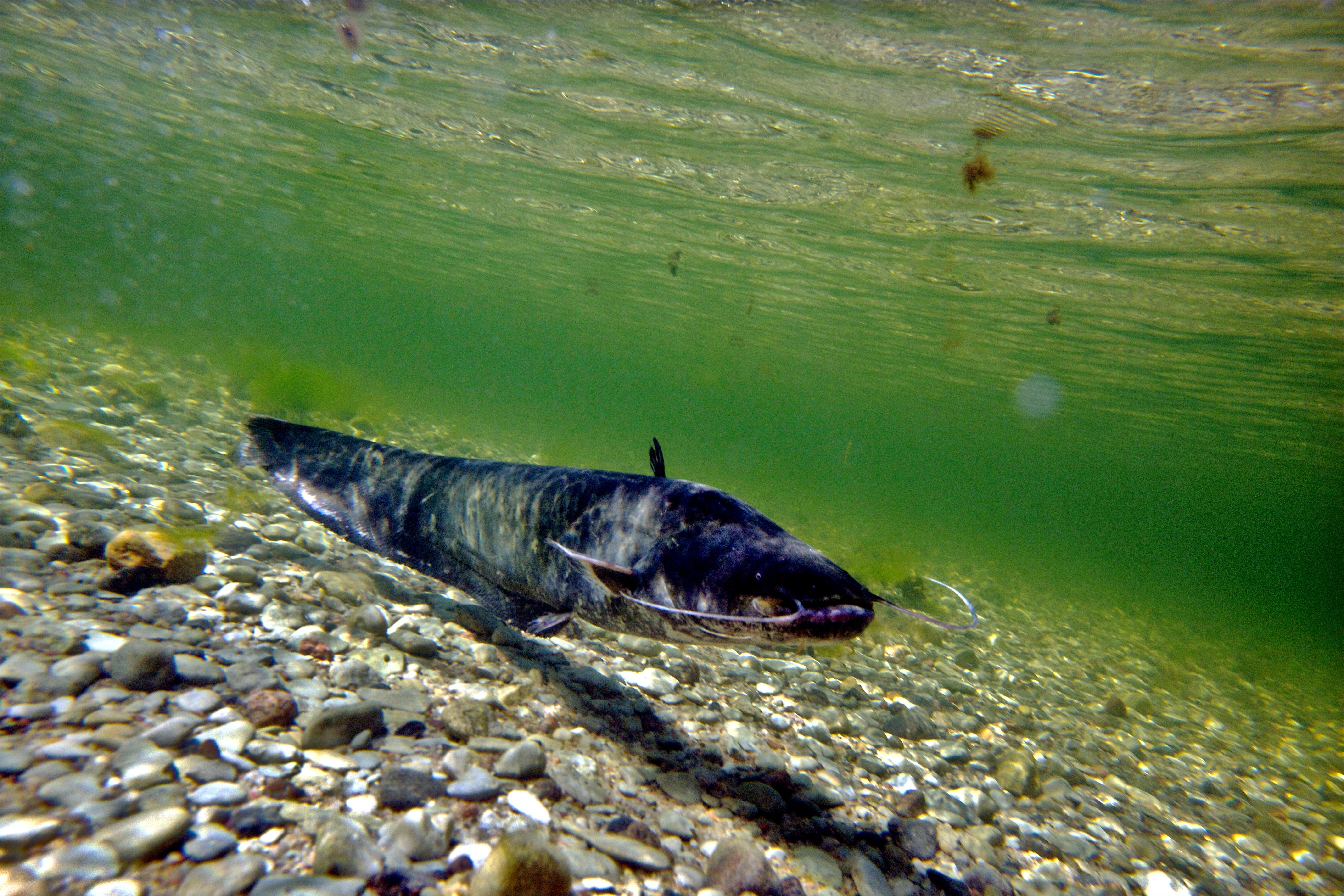 Silurus glanis in Baltic Sea. Lääne County, Estonia.